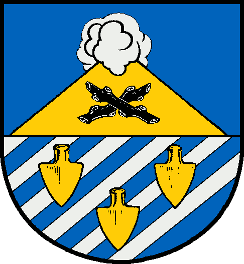 Coat of arms of Bramstedtlund Blasonierung: Geteilt. Oben in Blau ein goldenes gleichschenkliges Dreieck, belegt mit zwei schräggekreuzten schwarzverkohlten Ästen und an der Spitze bedeckt mit dicken silbernen Wolken (rauchender Kohlenmeiler). Unten von Silber und Blau elfmal schräglinksgeteilt und drei goldene Pflugeisen in der Stellung 2 : 1.